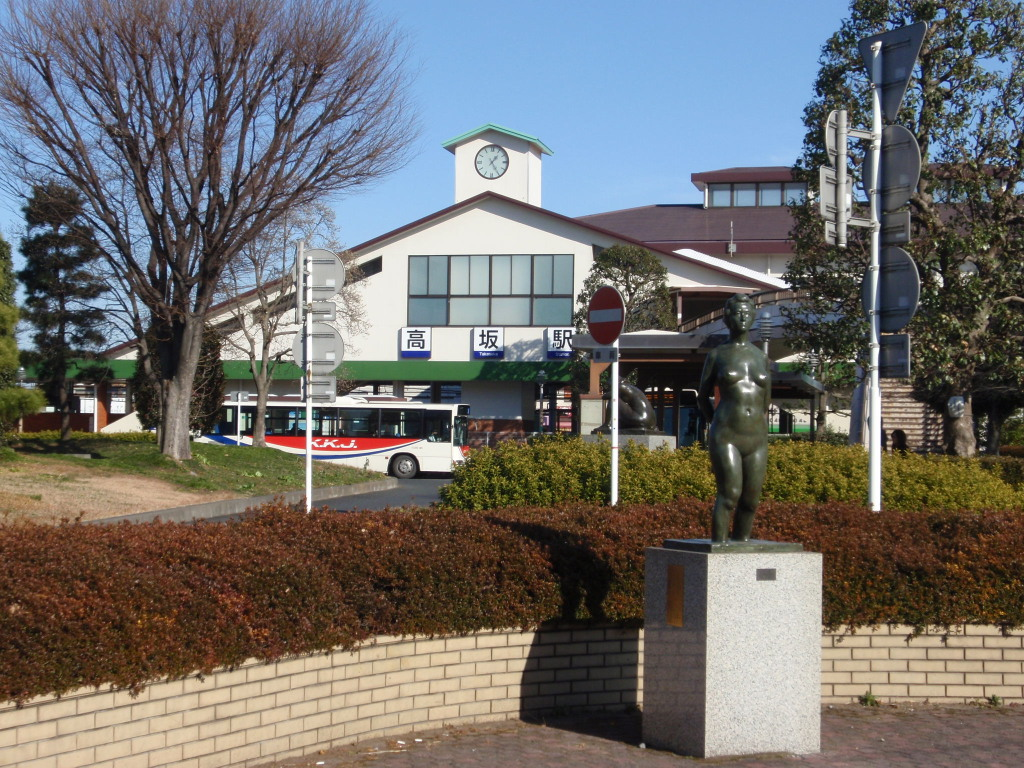 West entrance of Takasaka Station on the Tobu Tojo Line, in Higashimatsuyama, Saitama, Japan